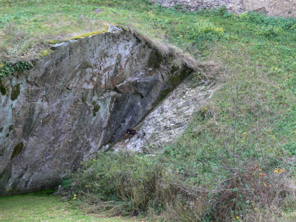 Angular unconcormity between Proterozoic and Ordovician sediments under the Točník Castle, CZ.